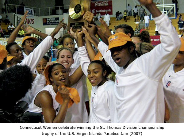 UConn team photo 2007, Paradise Jam Tournament winner